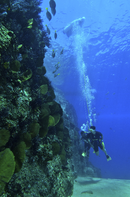 Snuba raft and divers